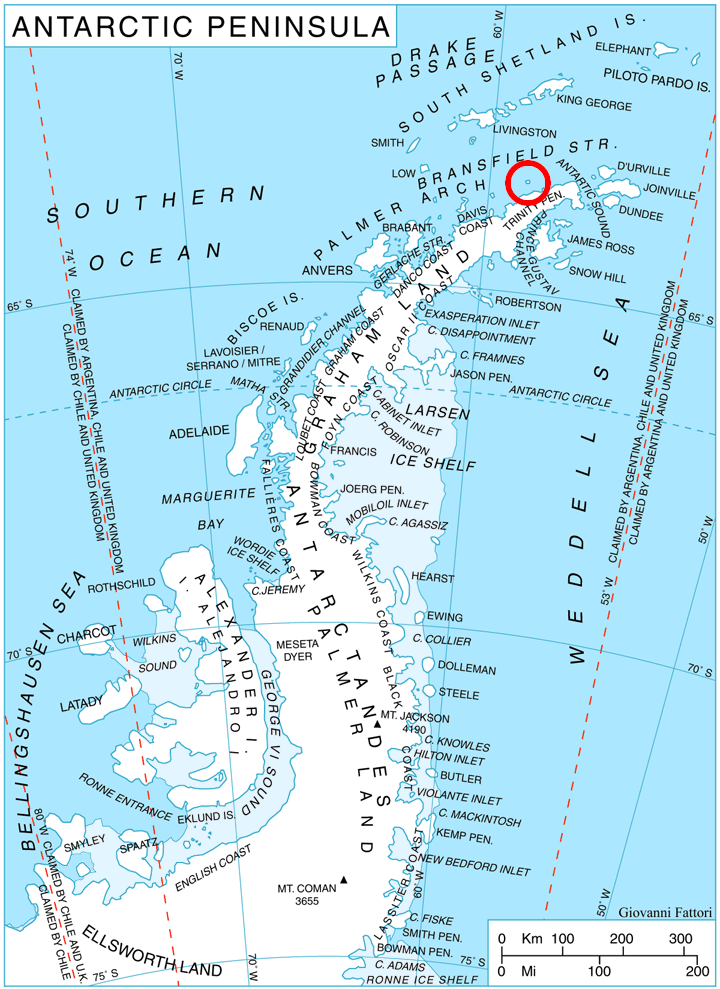 Location of Astrolabe Island, Antarctica.